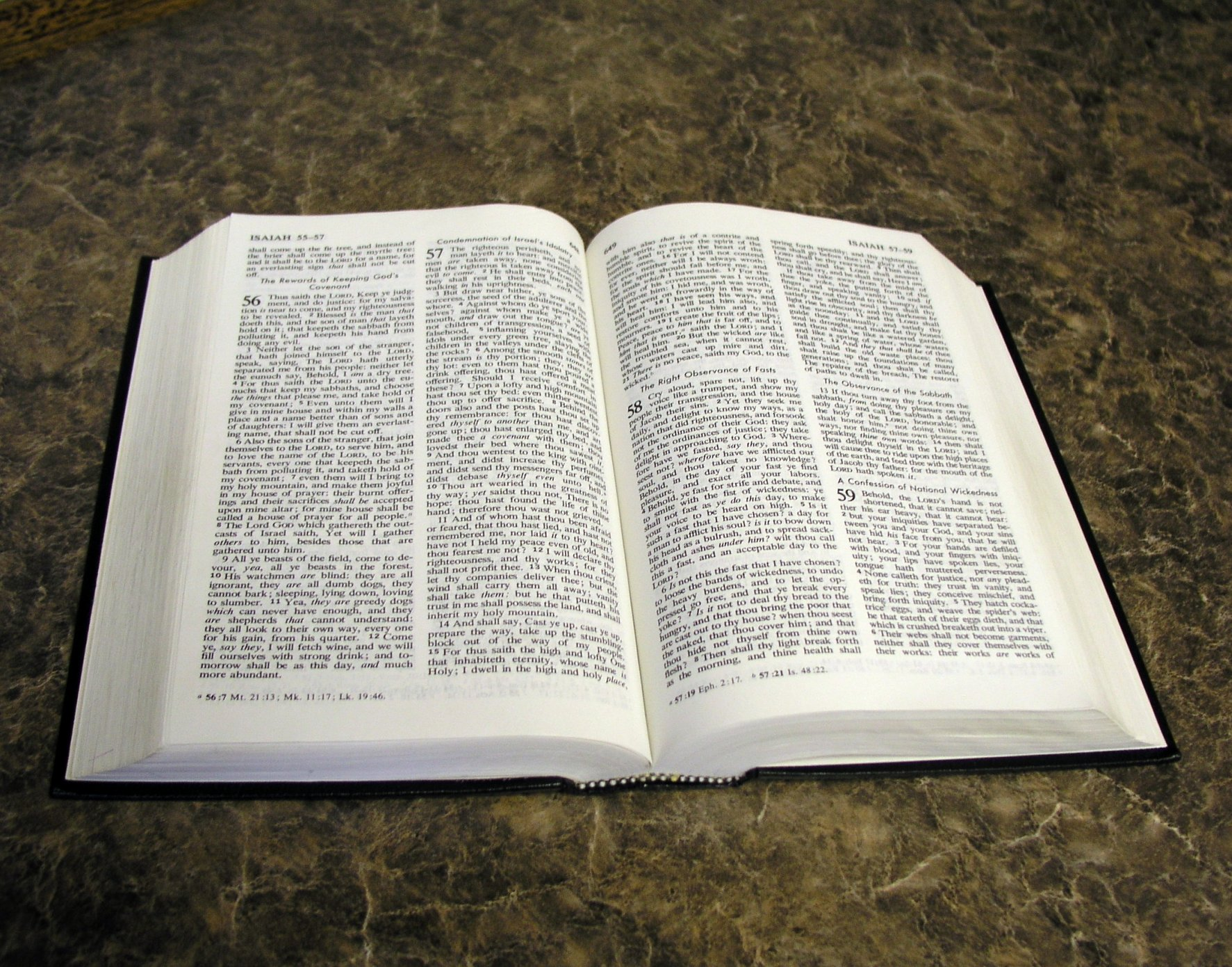 A Bible opened to the Book of Isaiah.